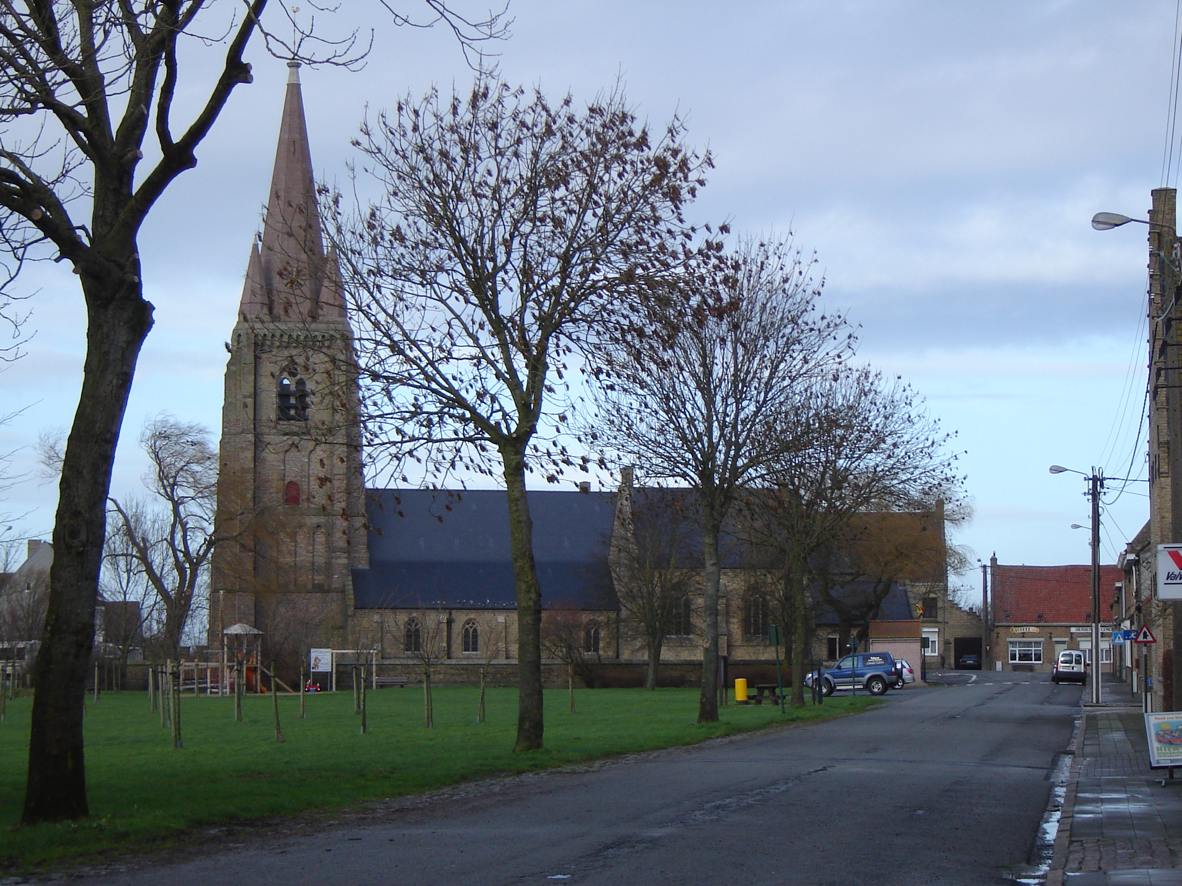 Church of Our Lady in Schore, in Middelkerke, West Flanders, Belgium